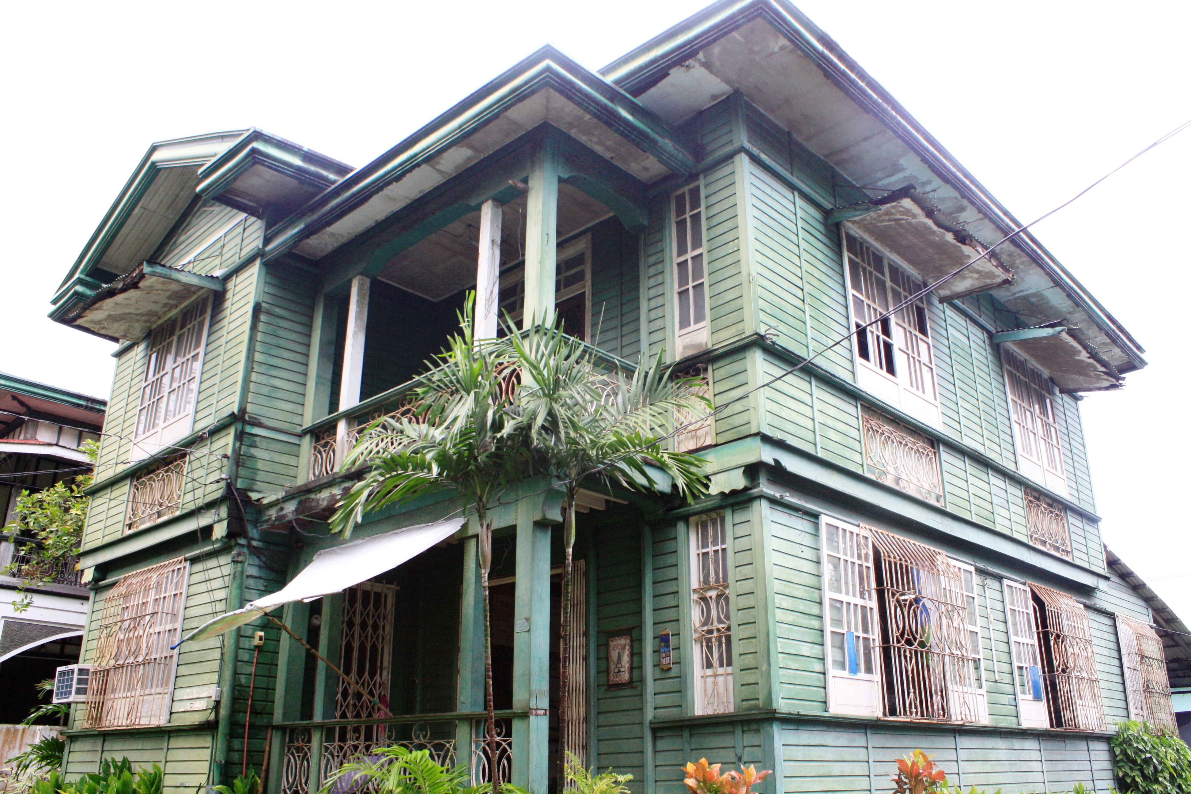 The Angel Araneta Ledesma Heritage House.